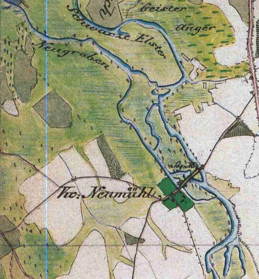 Neumühl, Lkr. Elbe-Elster, Brandenburg, Germany, detail from the Urmesstischblatt Sheet 4445 Falkenberg, drawn in 1841